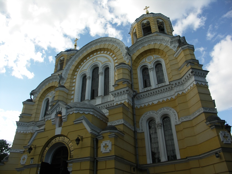 Facade of St Volodymyr's Cathedral, Kiev.